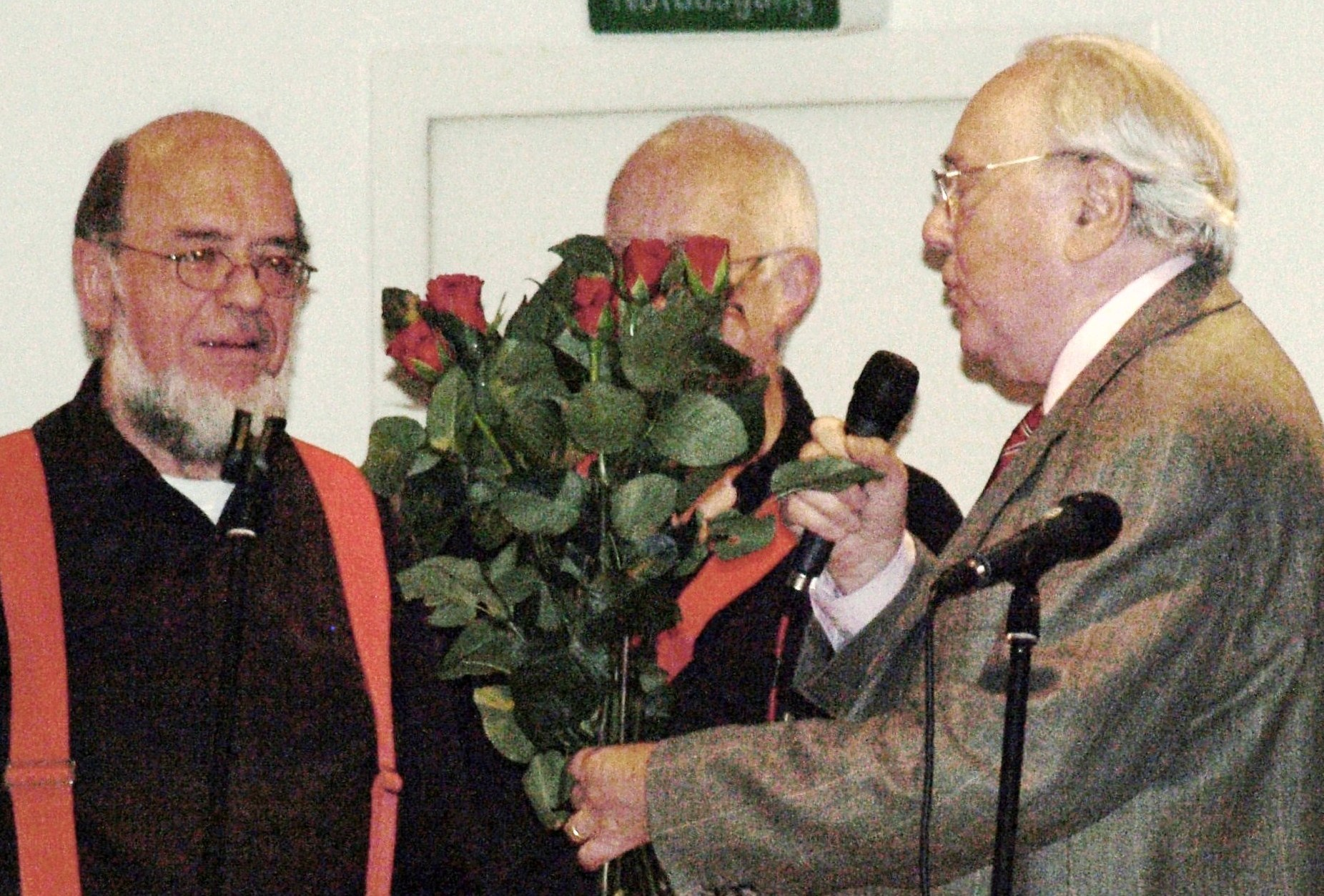 Karlheinz Drechsel congratulates the Umbrella Jazzmen on their 50th Jubilee.